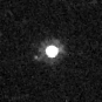 Hubble Space Telescope image of cubewano 50000 Quaoar and its moon Weywot, taken on 14 February 2006.